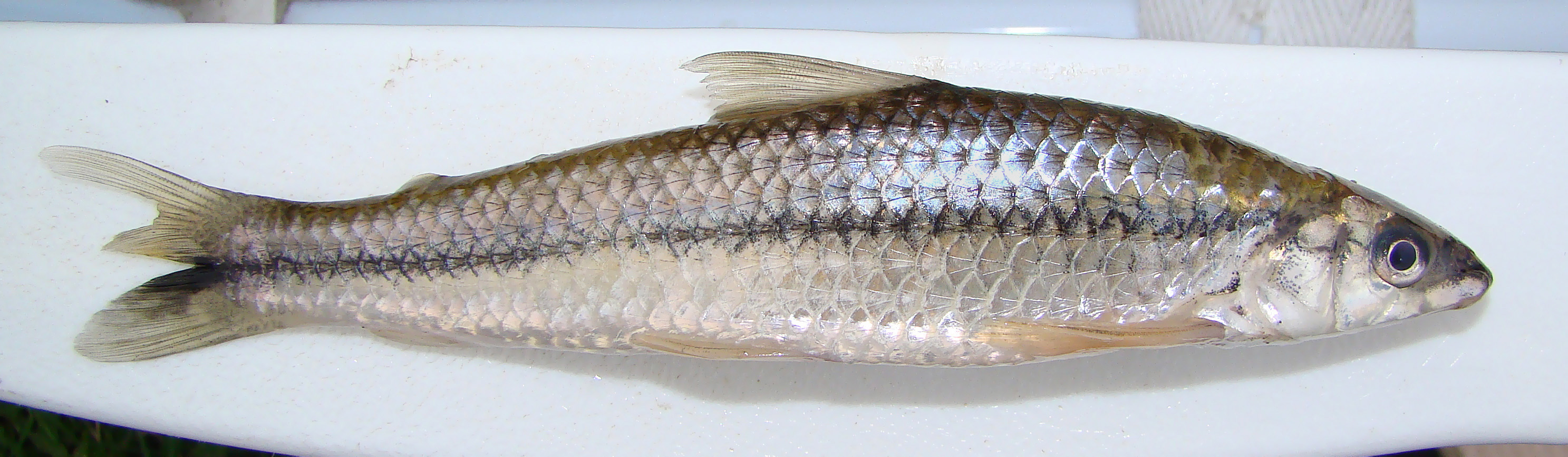 Apareiodon affinis from Tacuarembó River, Uruguay, photographed in December 2009.